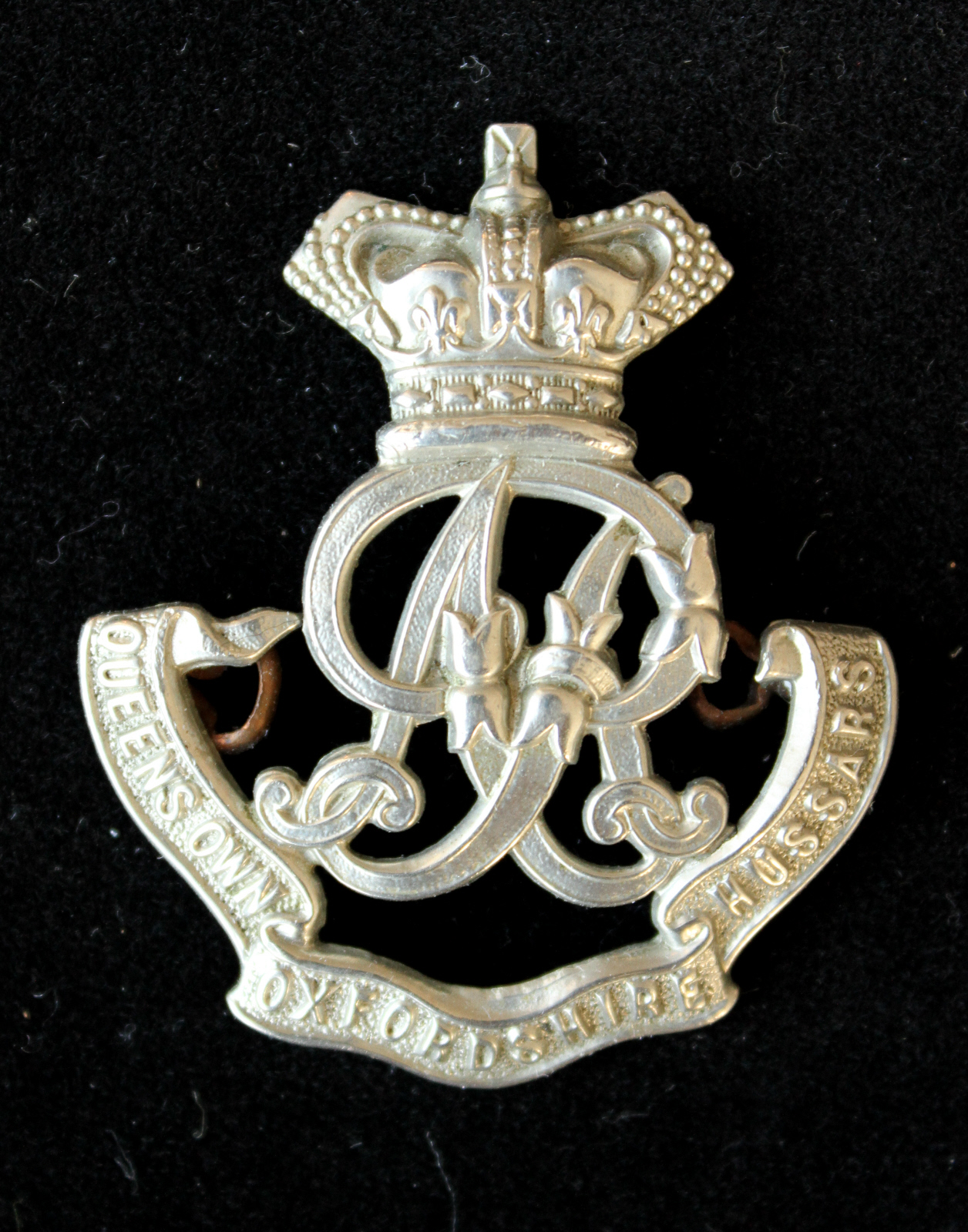 This is the story of contributor Christopher French's maternal grandfather, Frederick Pargeter, who served on the Western Front. He served in the Queen's Own Oxfordshire Hussars. Nothing is known of his service except that he survived the war. Objects contributed include his whip, spurs, leather belt of uncertain use and cap badge.